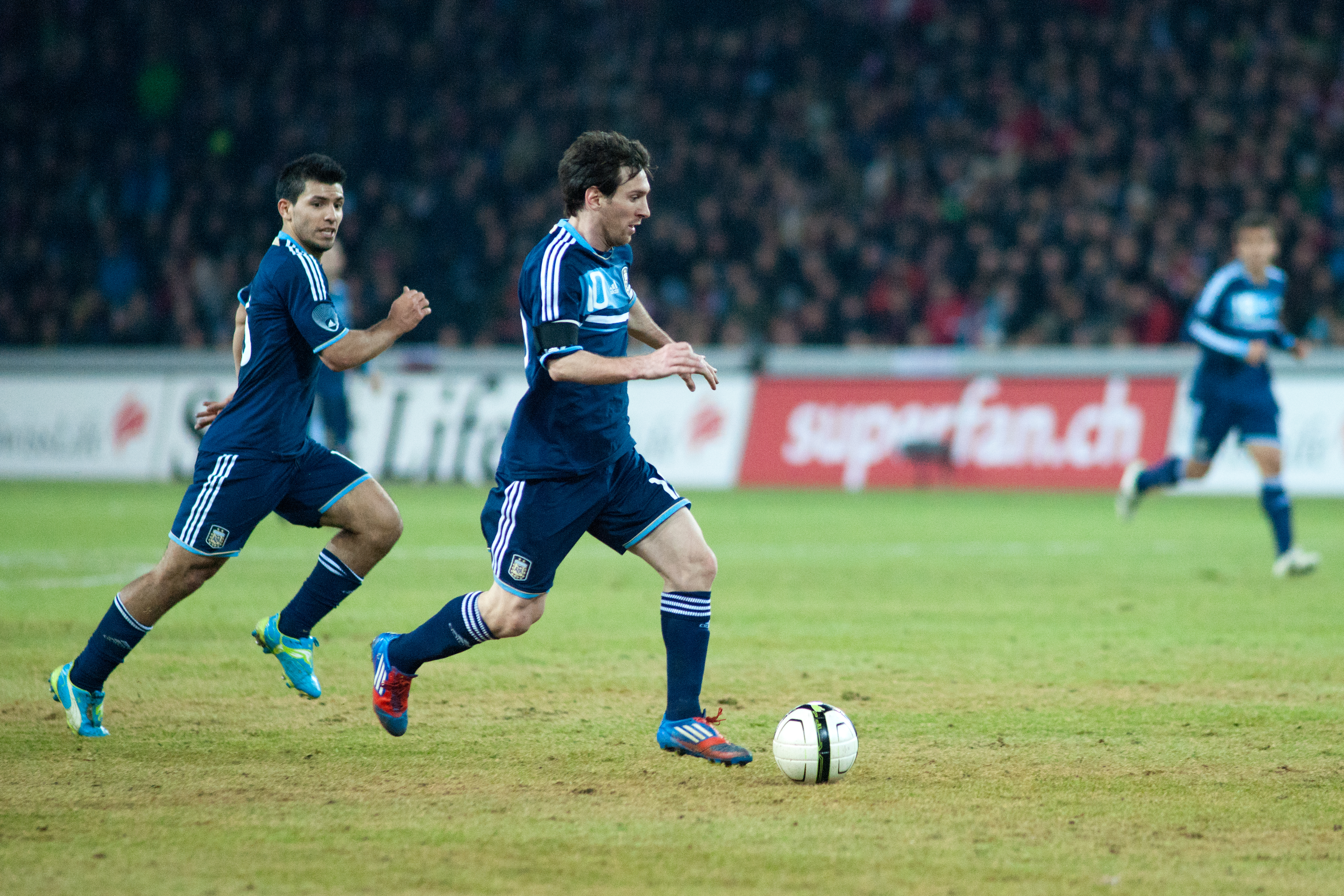 The making of this document was supported by Wikimedia CH. (Submit your project!) For all the files concerned, please see the category Supported by Wikimedia CH. Switzerland vs. Argentina, 29th February 2012